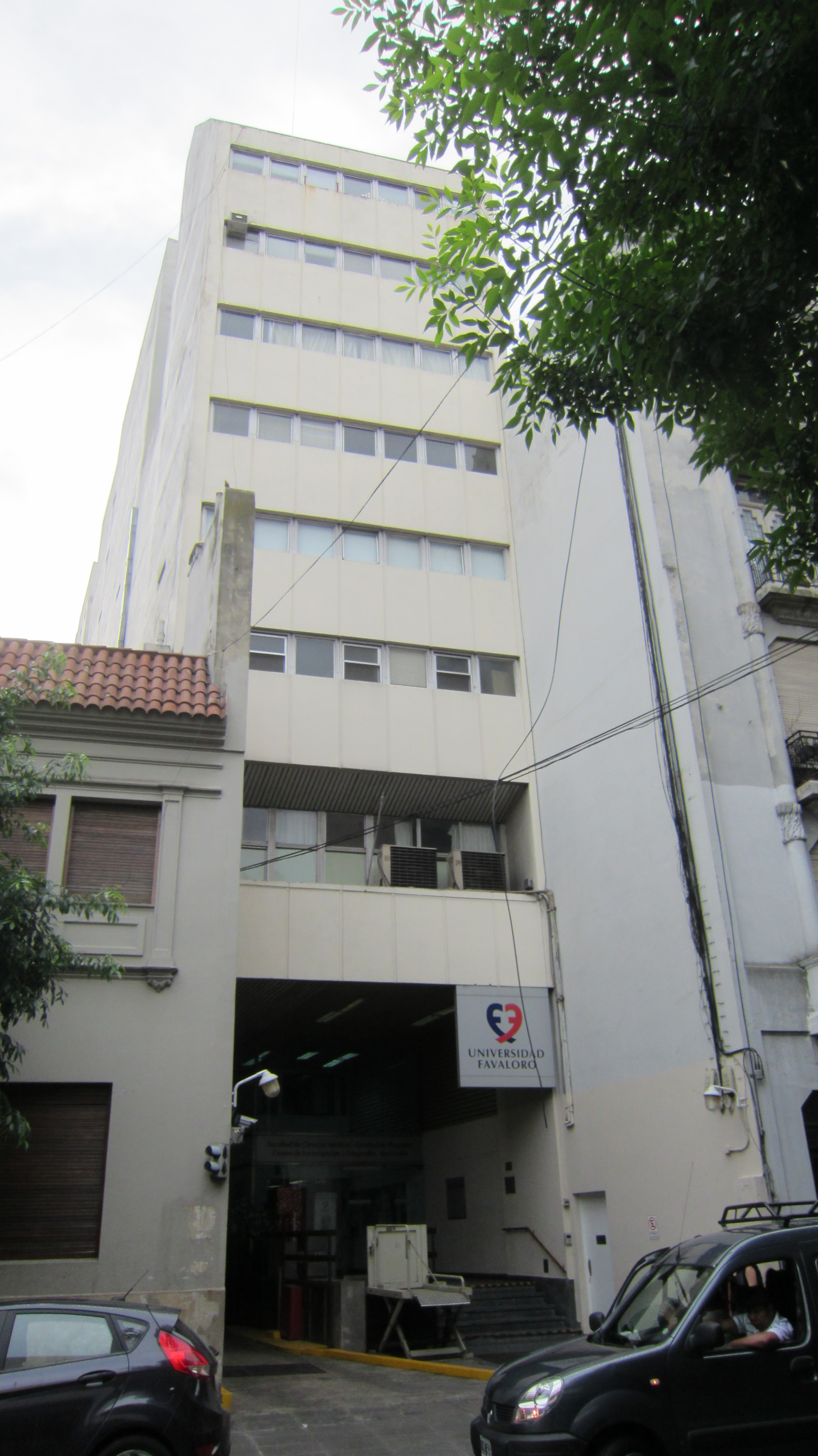 Argentina - Buenos Aires - Photo of Building Solis (Solis 453), Favaloro University, part of the Favaloro Foundation Faculty of Medical Sciences - Graduate School Research and Development – Rector’s office. GPS S34.61433 W58.39037